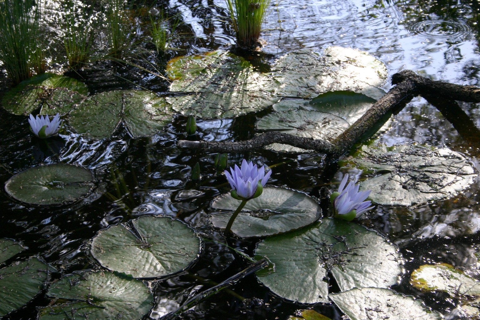 Nymphaea capensis growing in pond in Johannesburg, South Africa